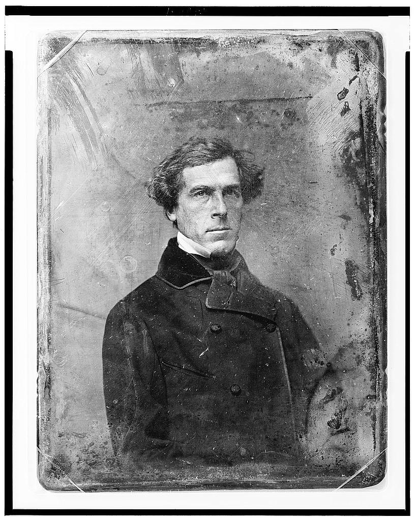 Washington Hunt